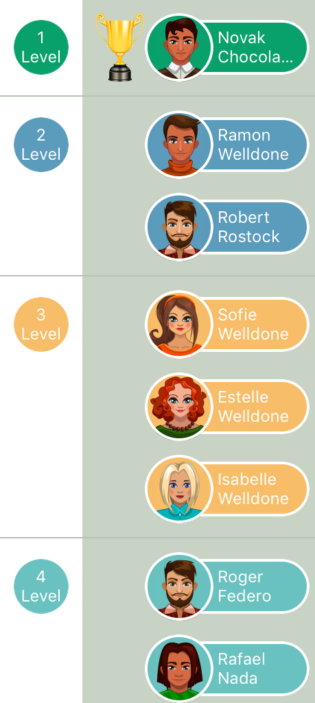 Example of a Laddercompetition with players listed vertically